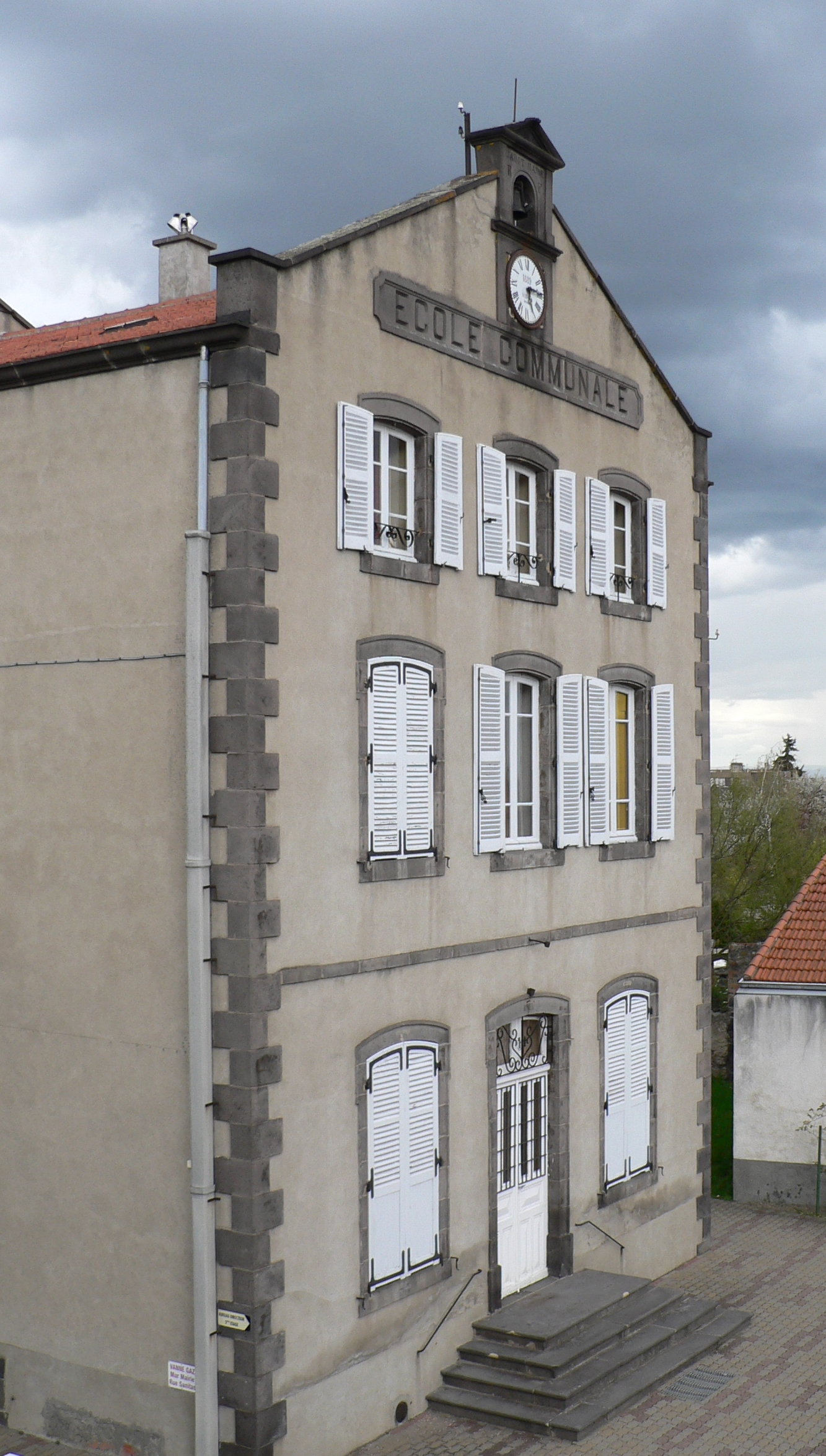 School of Mozac (63, France).